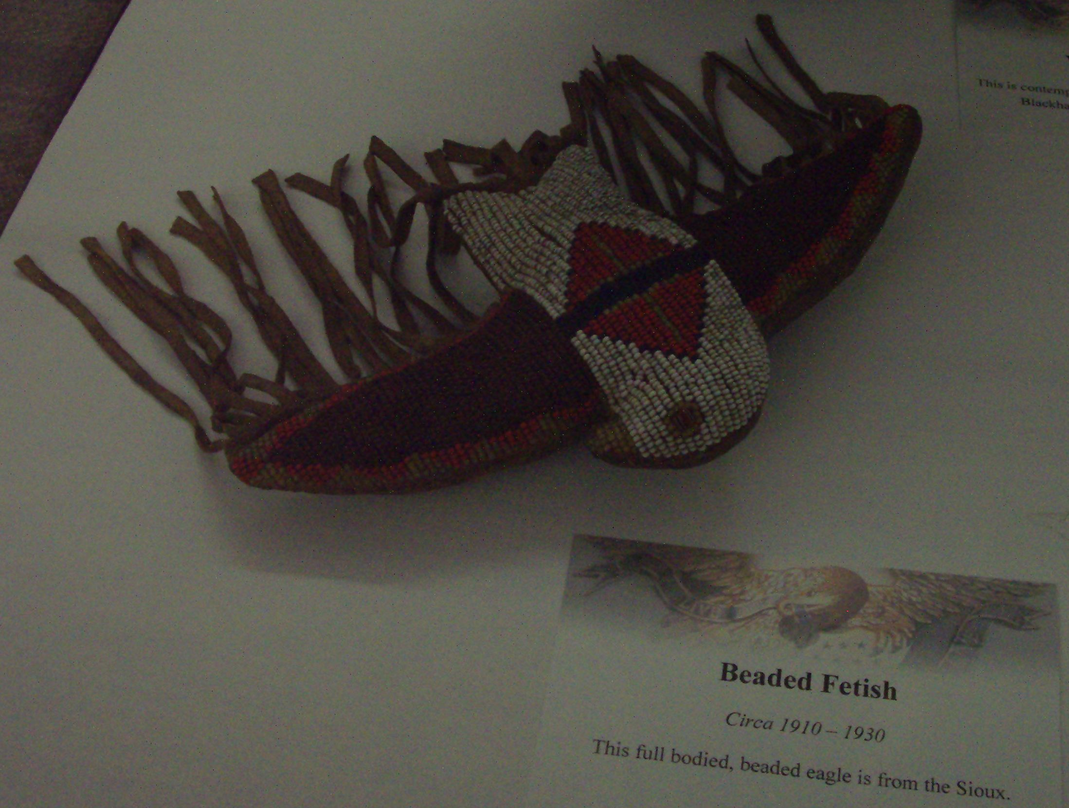 A picture taken by me.